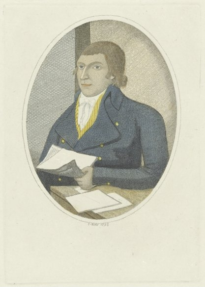 Portrait of George Mealmaker, (1768-1808); a Scottish Radical Reformer.